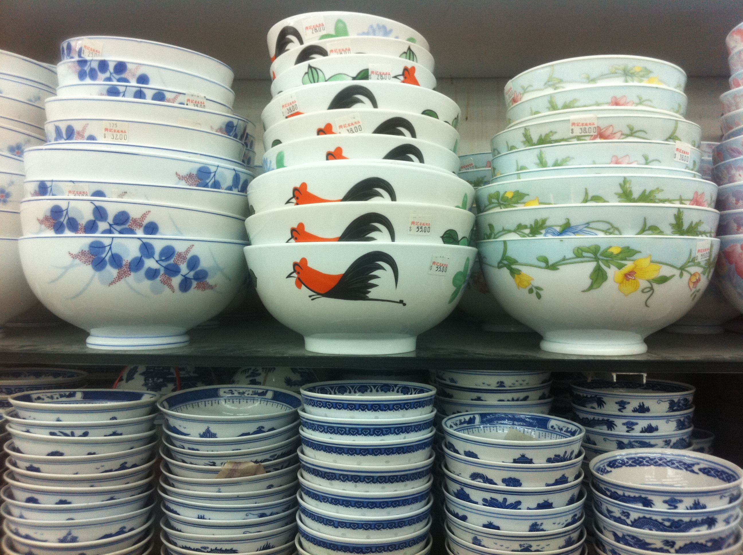 中文（香港）: 灣仔道 興記, Hing Kee shop in Wan Chai Road, Hong Kong